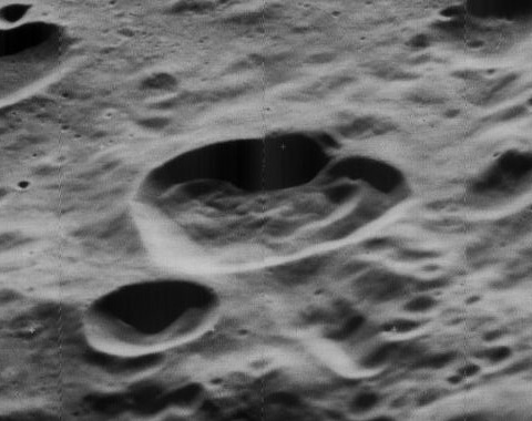 Oblique view of Lovell, on the far side of the moon, facing west.